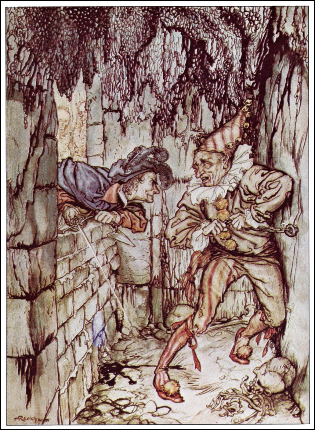 Arthur Rackham's illustration from Poe's "Tales of Mystery and Imagination" for Edgar Poe's story "The Cask of Amontillado".